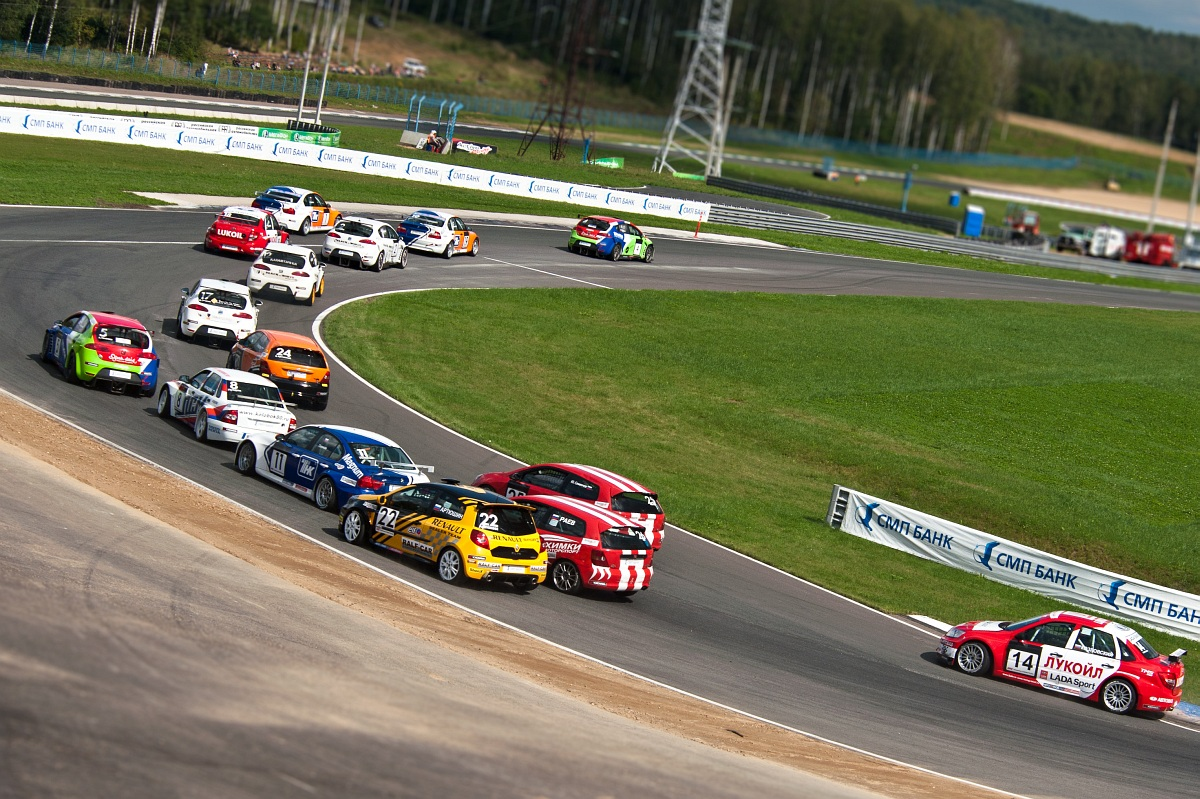 6 этап RRC